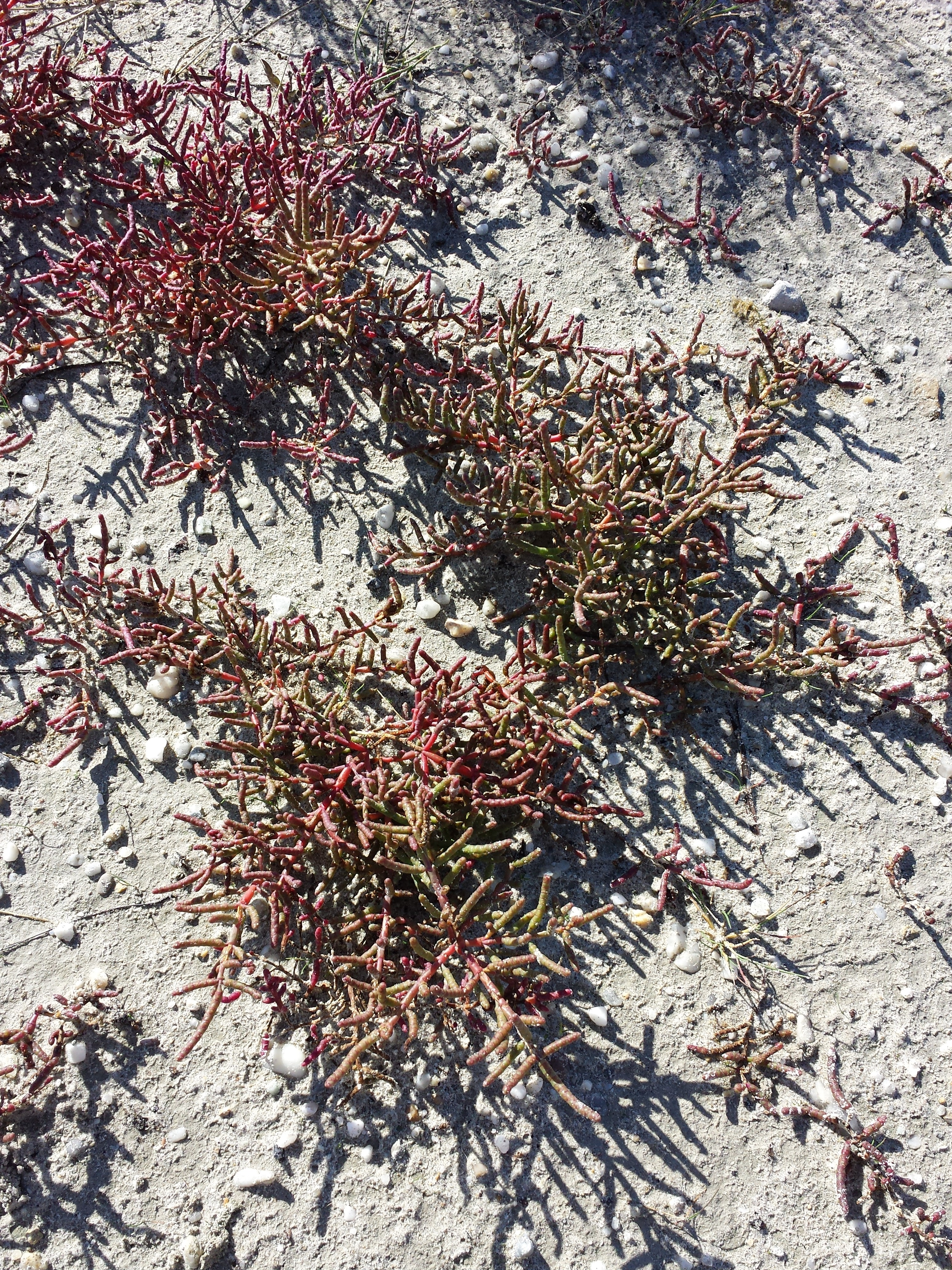 Habitus Taxon: Salicornia prostrata (sensu Fischer et al. EfÖLS 2008; det M. A. Fischer 2013-10-12) Location: small salt lake near Podersdorf, district Neusiedl am See, Burgenland, Austria - ca. 120 m a.s.l. Habitat: dried-out small salt lake